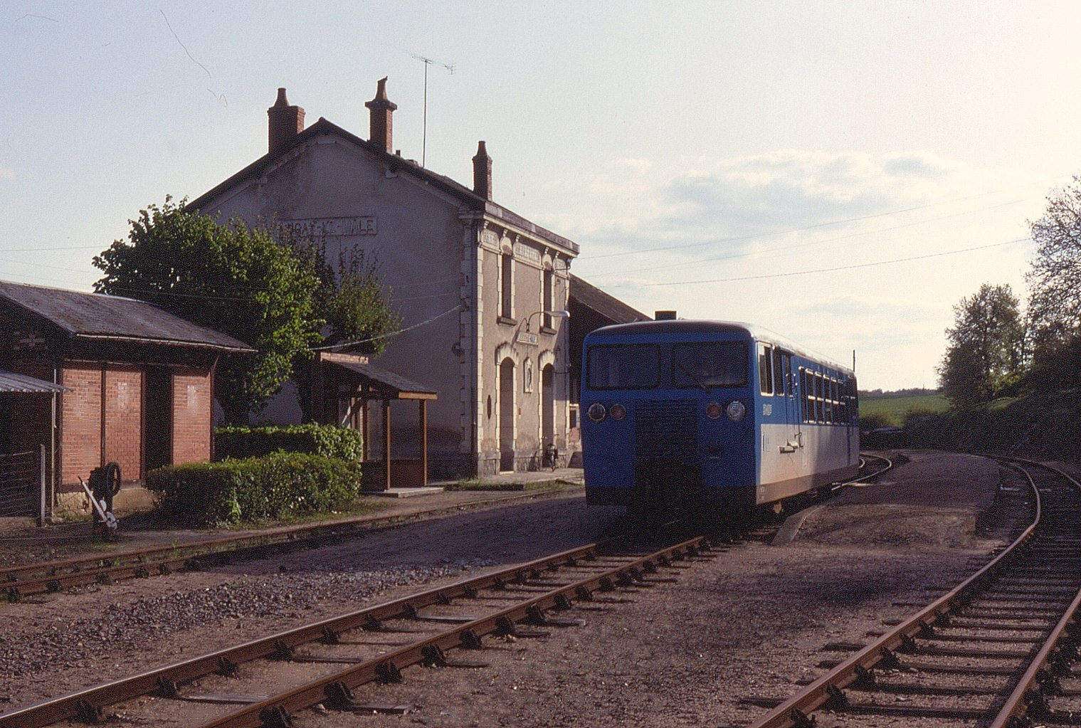 The Chemin de Fer du Blanc-Argent was once an extensive metre gauge system in the Centre Region of France. Over the years it has been cut back extensively and was a particularly difficult system to cover thanks to low frequencies. On 3 May 1992, railcar X214 is seen at Luçay-le-Mâle on the 19:19 departure to Chabris. This section plus that onto Valençay closed in 2009. Despite this, the remaining section still open had new narrow gauge railcars delivered in 2002.